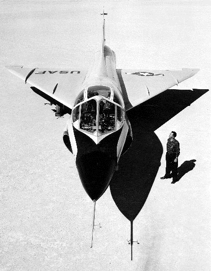 Convair TF-102A "Delta Dagger" on lakebed